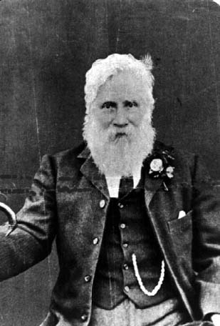 Henry Burling, an early New Zealand settler, farmer and mail carrier.